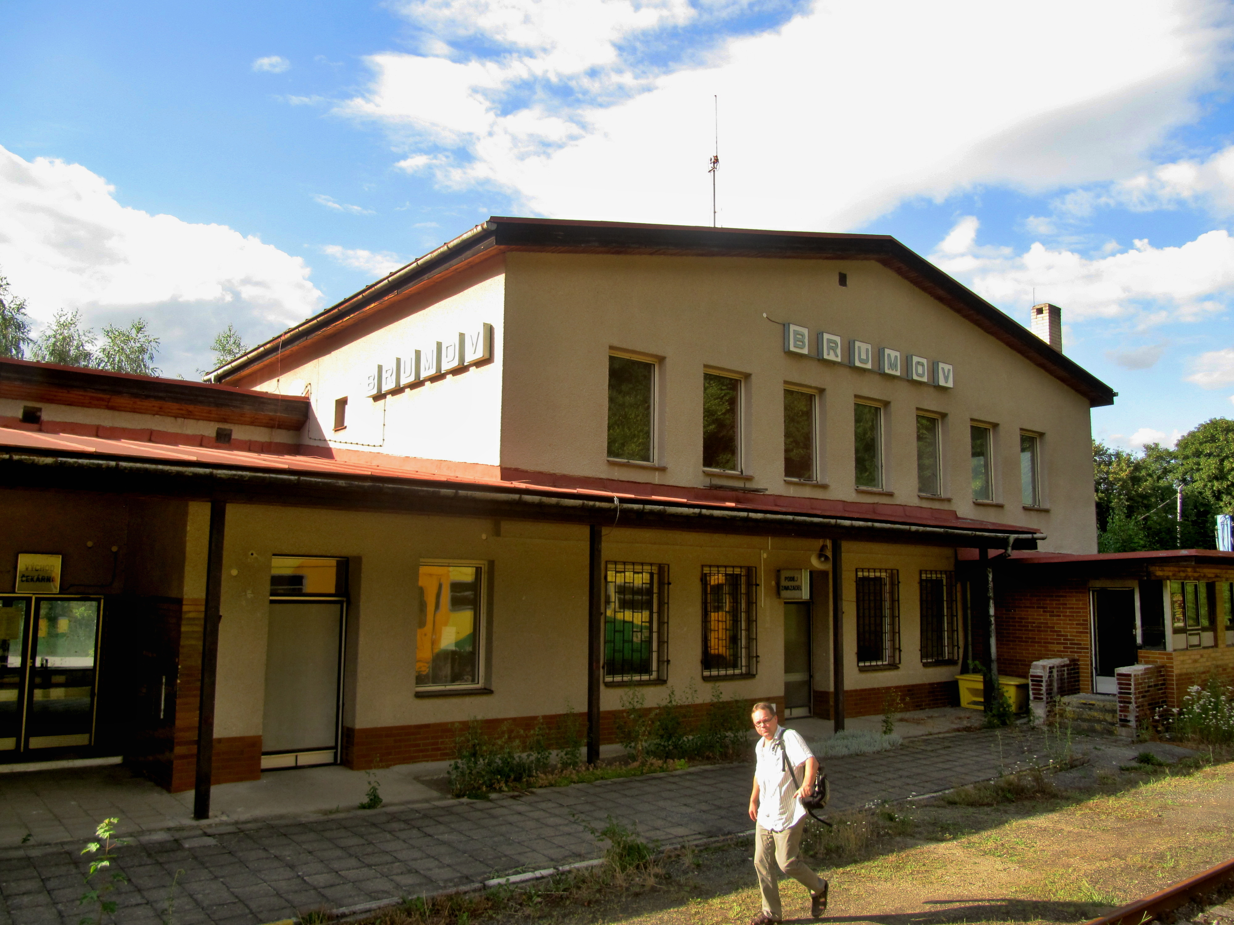 Brumov-Bylnice, Zlín District, Czech Republic, part Brumov.